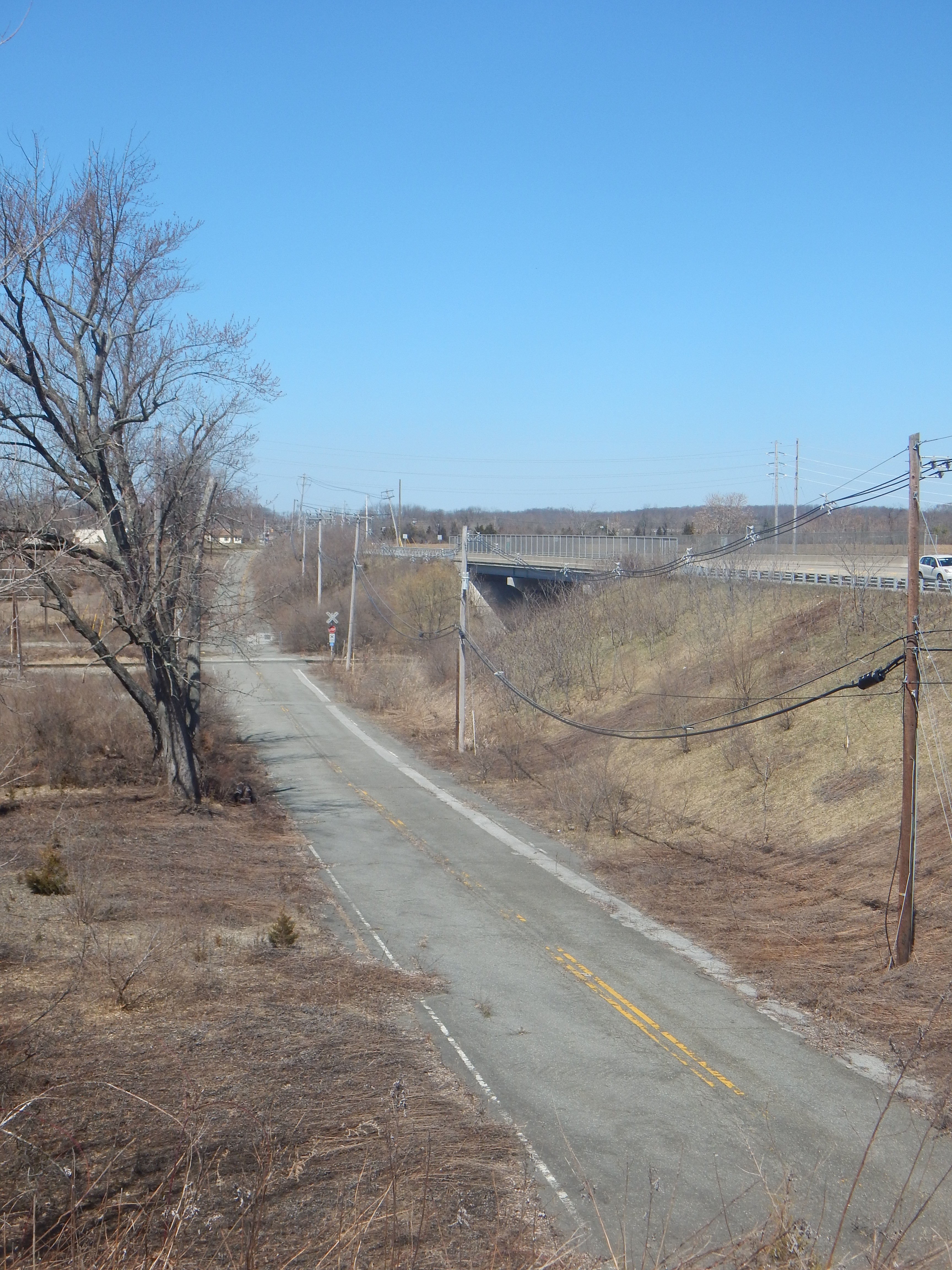 The former and current alignments of Route 15 in Woodruff's Gap, New Jersey.